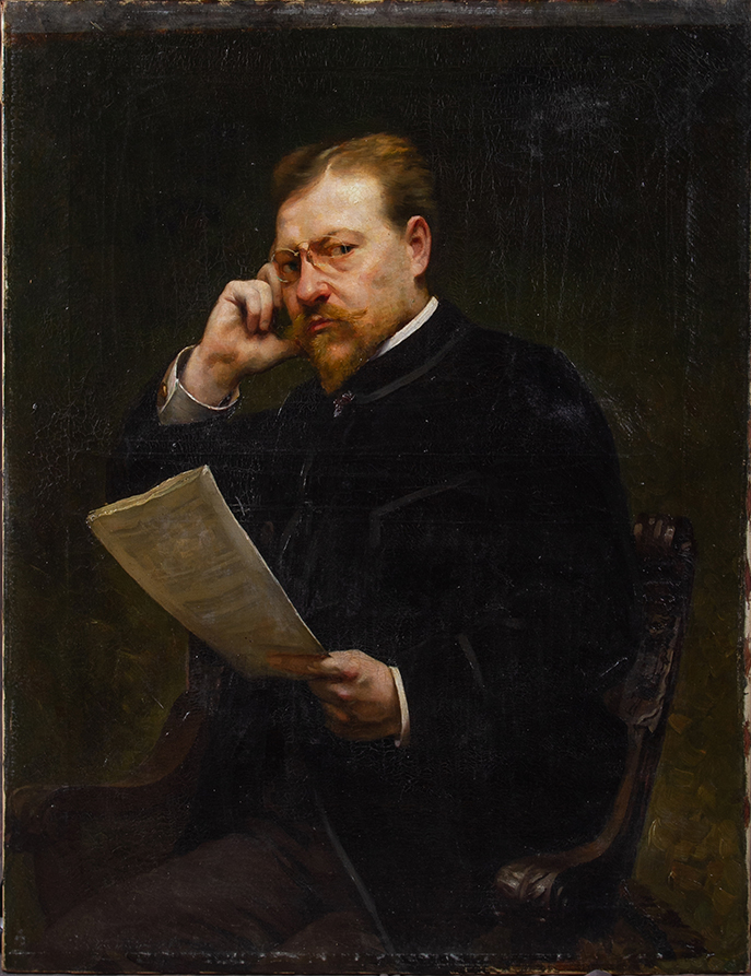 A portrait of Zola by Luc Barbut-Davray, a French painter of portraits, history, and genre scenes. Painted in 1899, when Zola returned to France after exile in London. Barbut-Davray received his artistic education at the “Ecole des Beaux-Arts" in Paris under the tutorship of both Roybet and Cabanel.